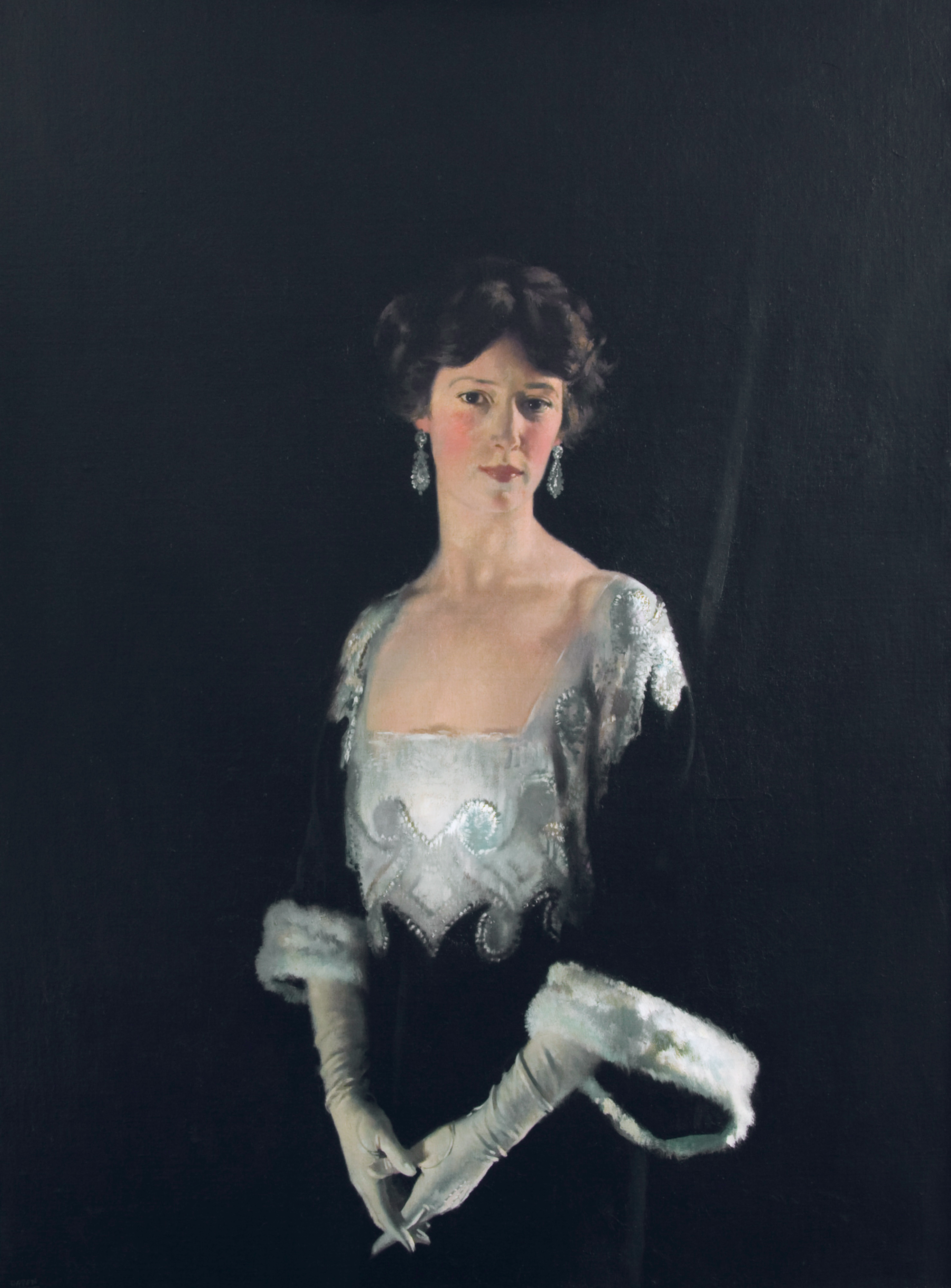 Portrait of Rosie, Fourth Marchioness of Headfort (1878-1958)